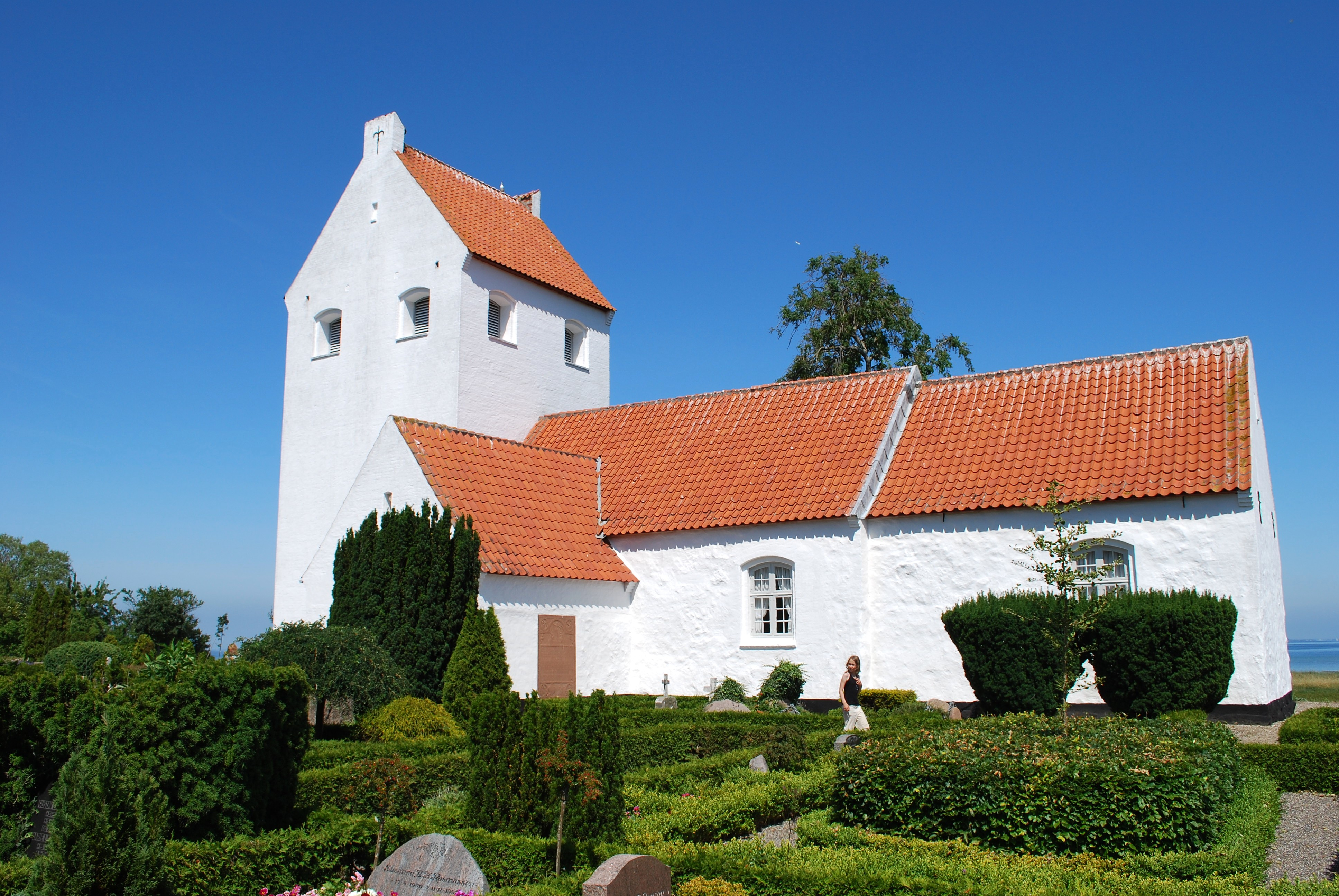 Church of Endelave, Denmark